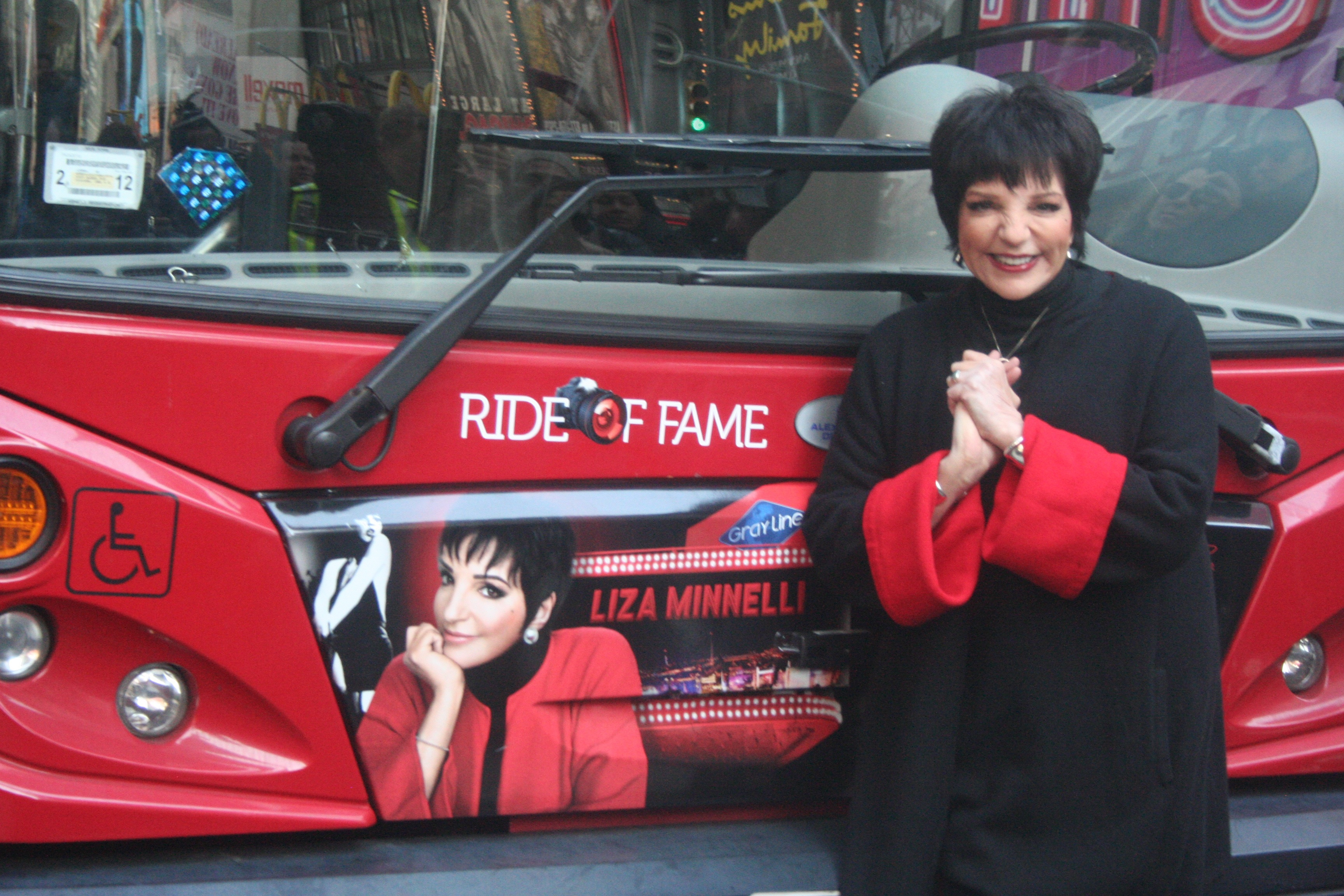 Legend and New York Icon, Liza Minnelli, Honored in Gray Line New York’s "Ride of Fame" March 8, 2011